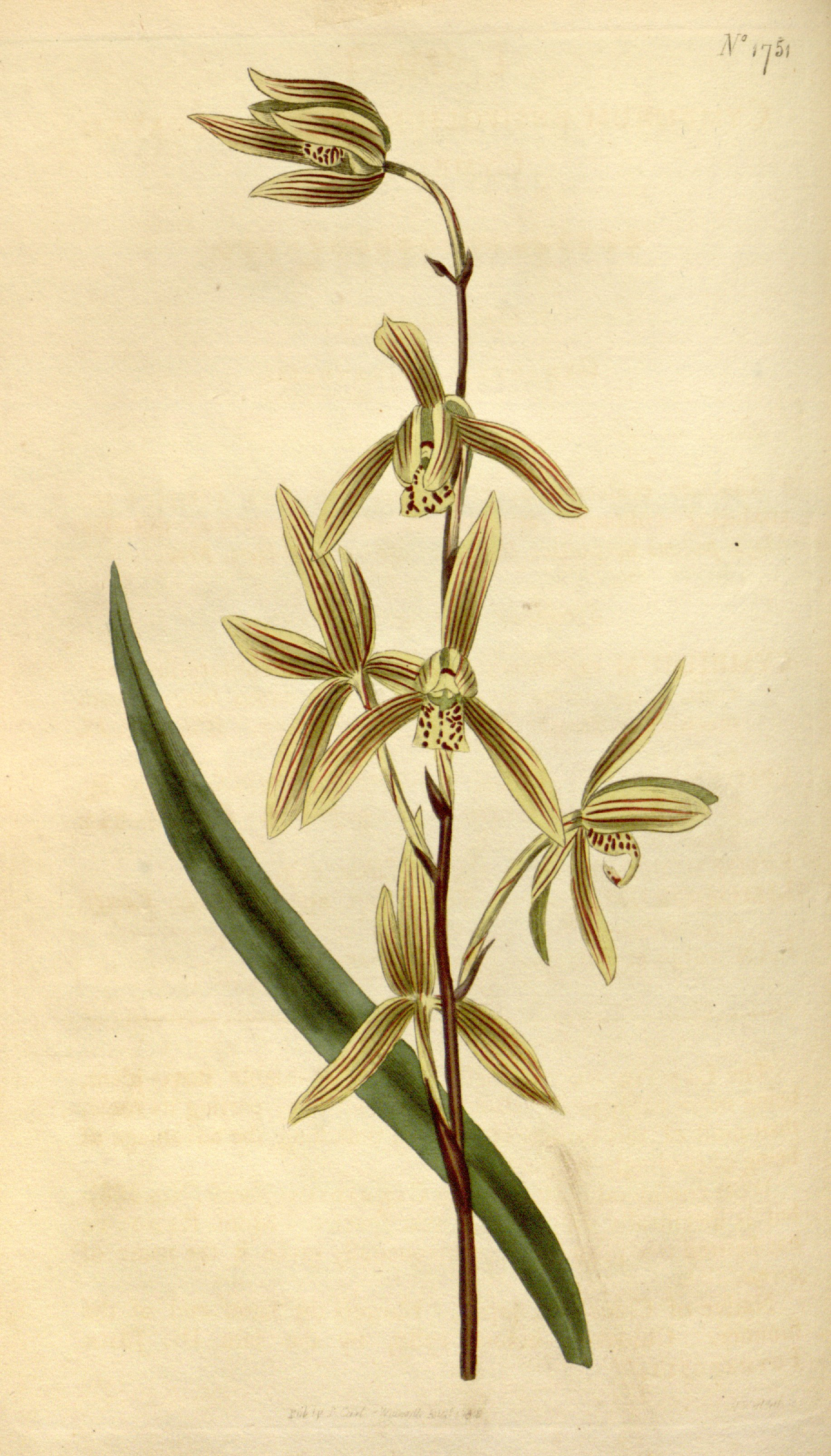 Illustration of Cymbidium ensifolium